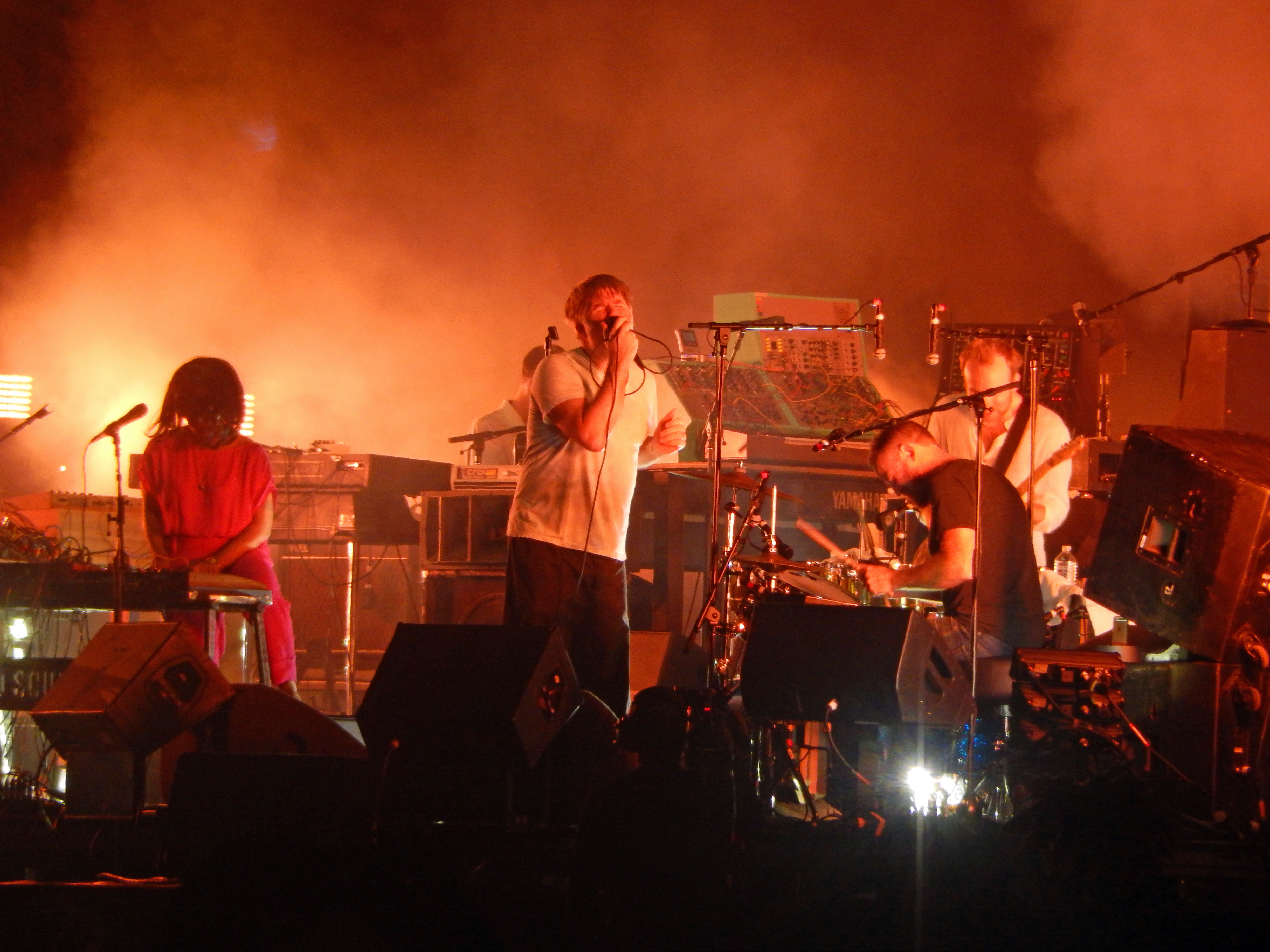 LCD Soundsystem performing live during the 2016 Lollapalooza Festival in Chicago, Illinois.